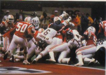 A football card from the 1986 Jeno's Pizza NFL football card stickers set of Chicago Bears quarterback Jim McMahon rushing the ball for a touchdown against the New England Patriots in Super Bowl XX. The card is numbered #11 in the set. The back of the card reads: BEARS ON THE WAY TO RECORD Chicago quarterback Jim McMahon dives into the end zone for a touchdown, as the Bears demolish the New England Patriots 46-10 in Super Bowl XX. The free-spirited McMahon also ran for another touchdown and passed for 256 yards. In winning by the largest margin in Super Bowl history, the Bears outgained the Patriots 408-123 and finished with an 18-1 record.